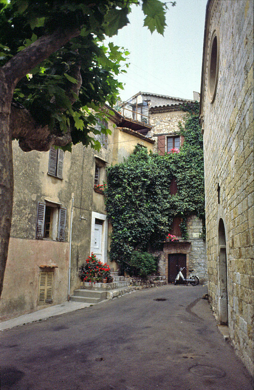 Mougins, Alpes-Maritimes, France: church square.